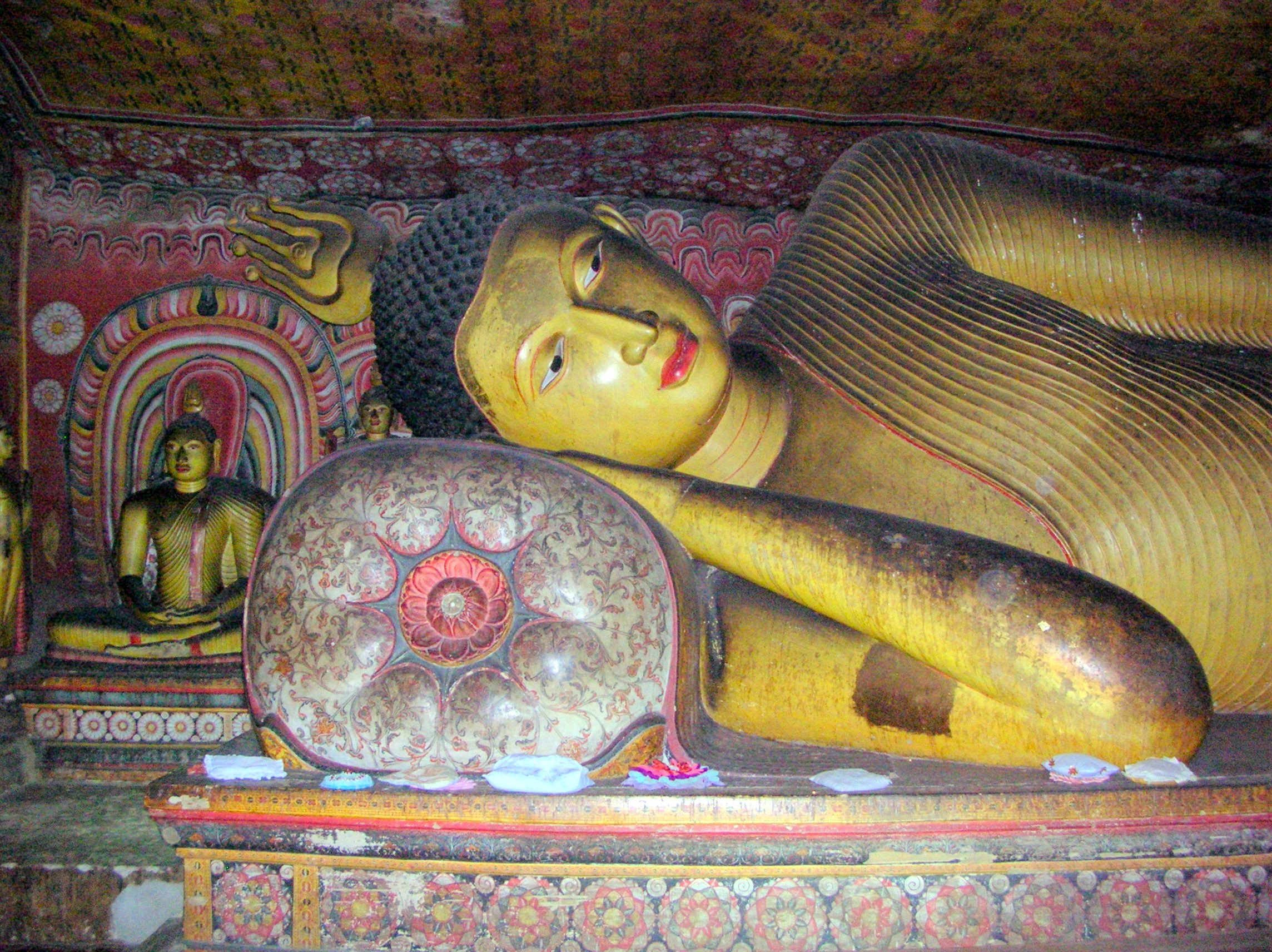 Reclining Buddha, Dambulla cave temple, Sri Lanka